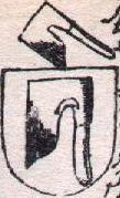 Coat of arms Topór from Herby rycerstwa polskiego by Bartosz Paprocki